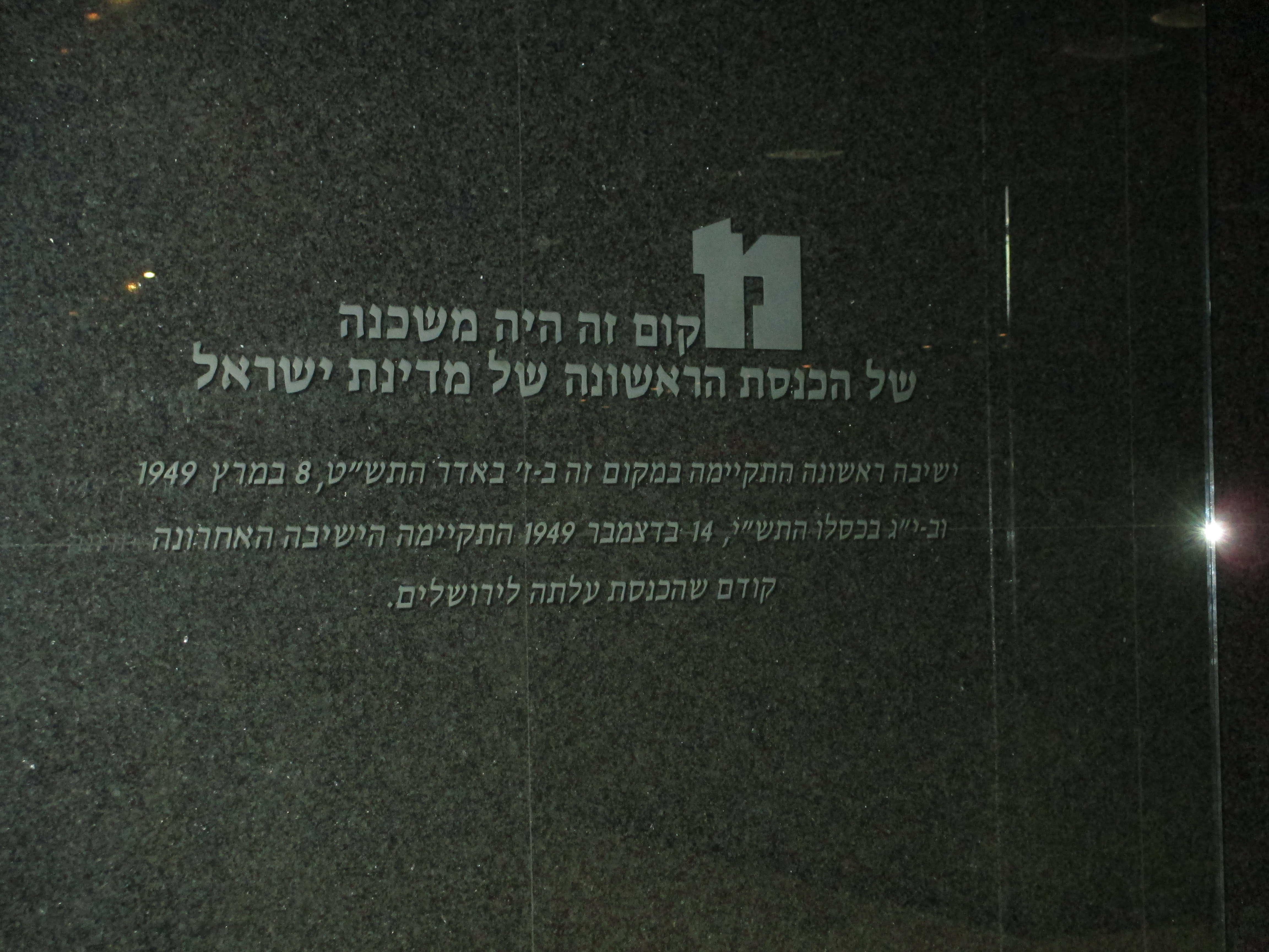 Memorial to the first knesset building in Tel Aviv